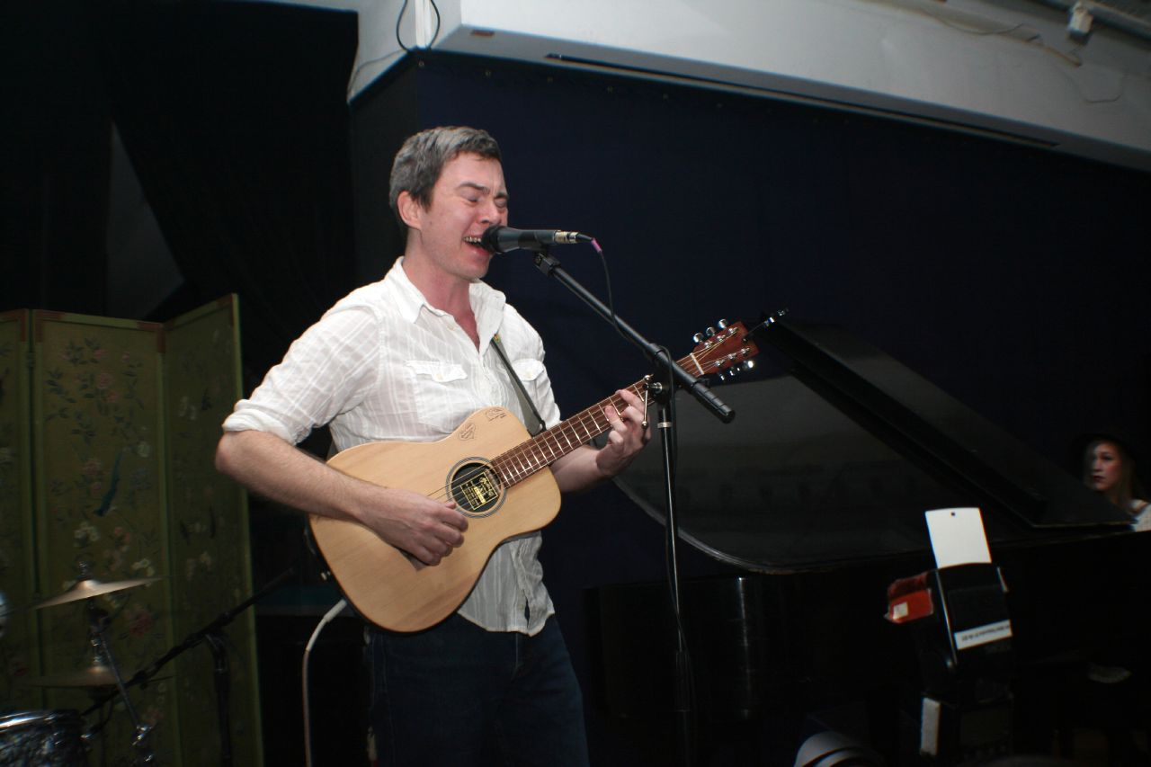 Bill Callahan at the National Arts Club 2007 with Joanna Newsom